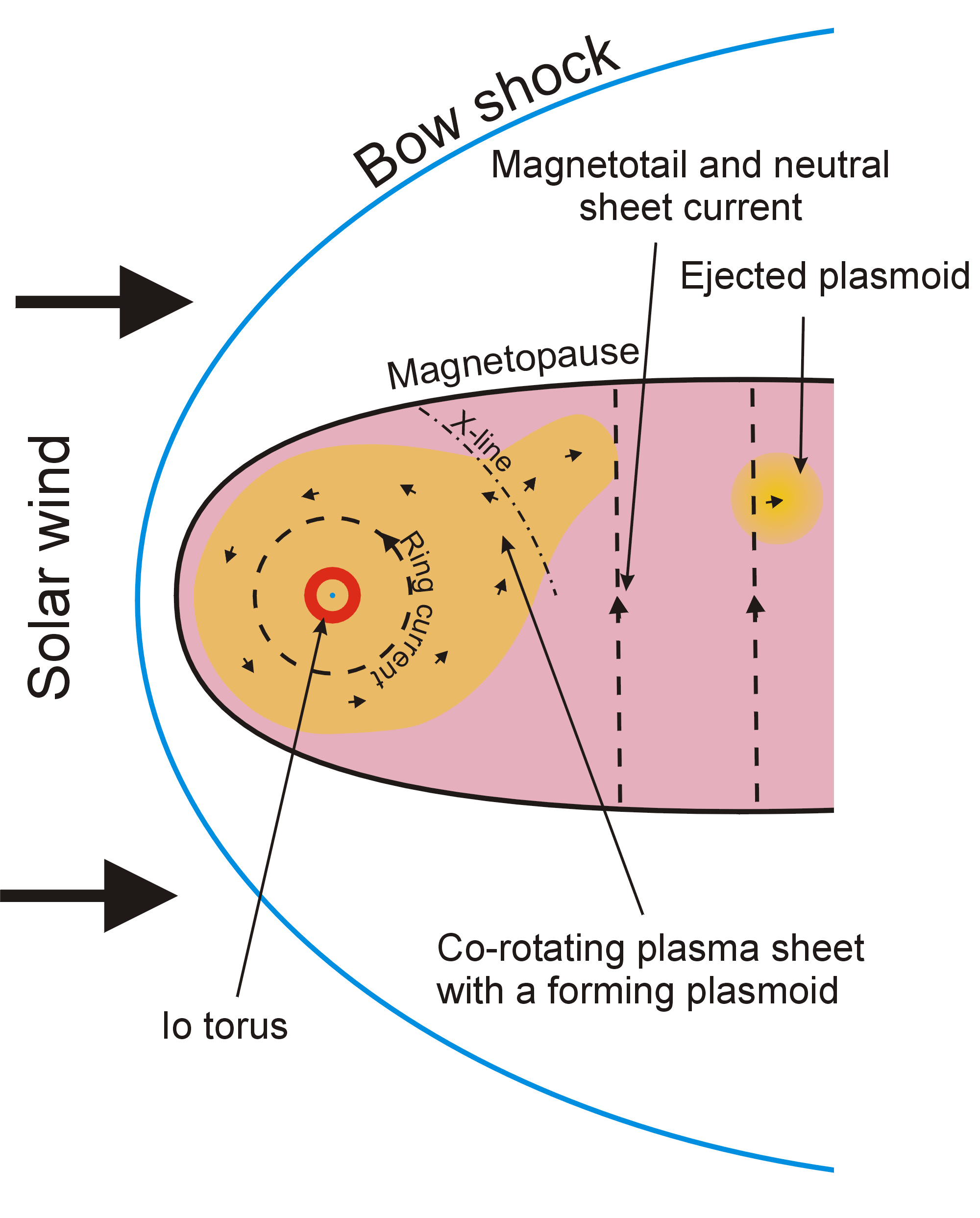 Jovian magnetosphere as viewed from above the north pole. The formation of plasmoids is shown. The arrows show the plasma convection directions.